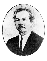 Tan Pingshan in 1926